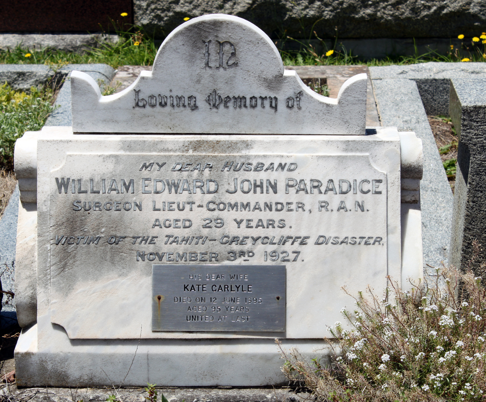 Grave of William Paradice who died in the Greycliffe / Tahiti maritime disaster on Sydney harbour 1927.